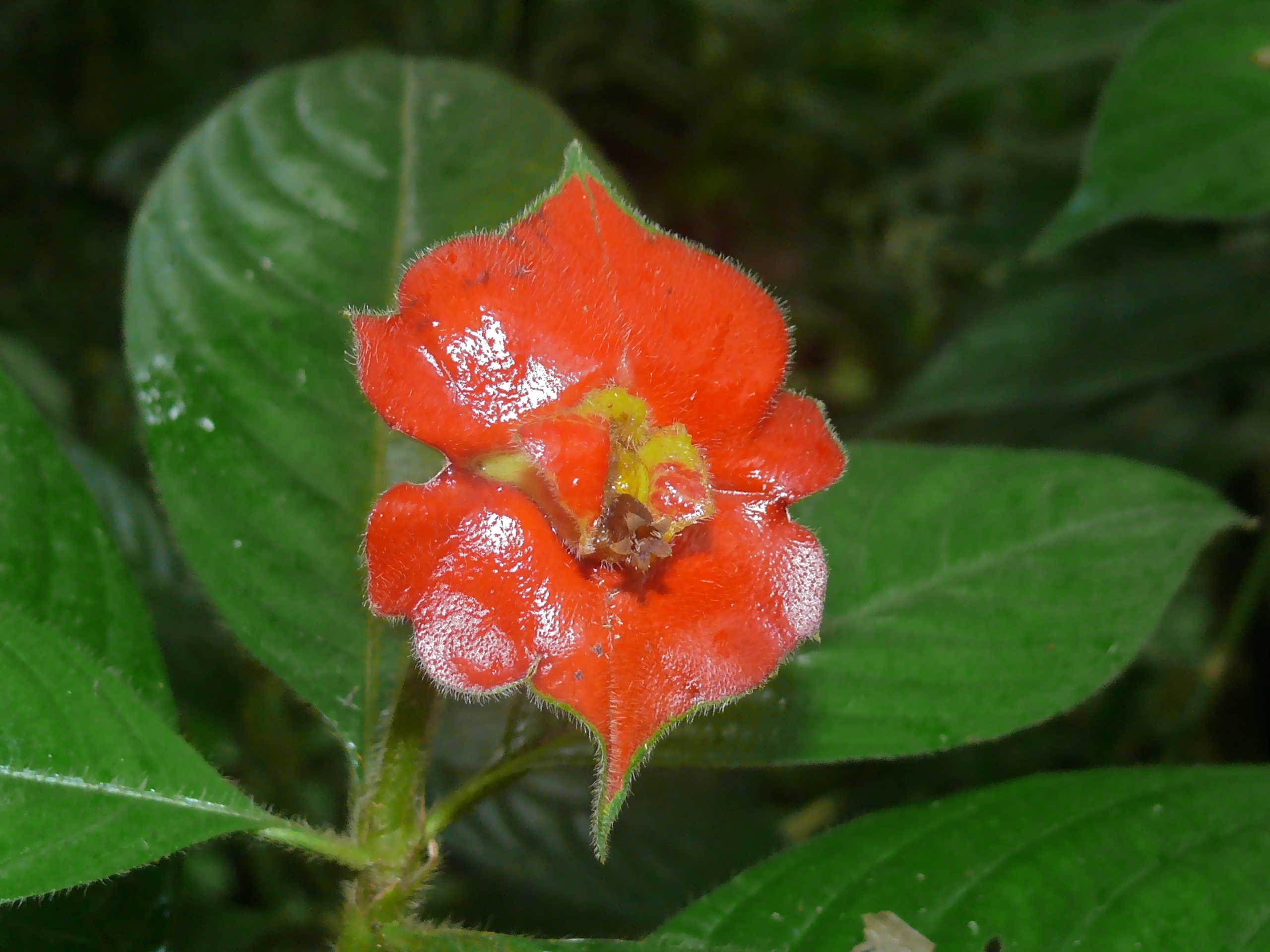 Cockscomb Wildlife Sanctuary, BELIZE